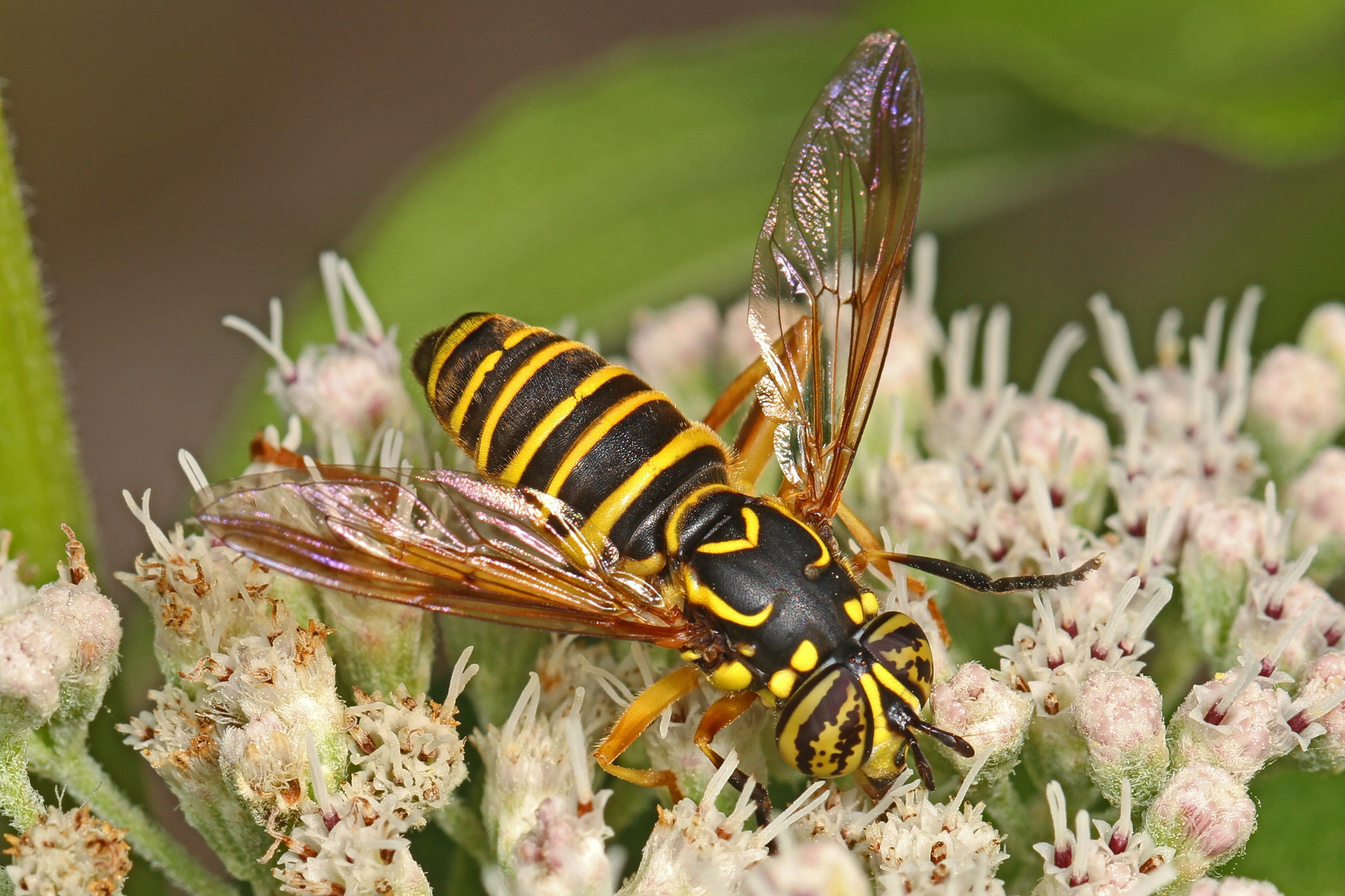 Syrphid - Spilomyia longicornis, Meadowwood Farm SRMA, Mason Neck, Virginia.